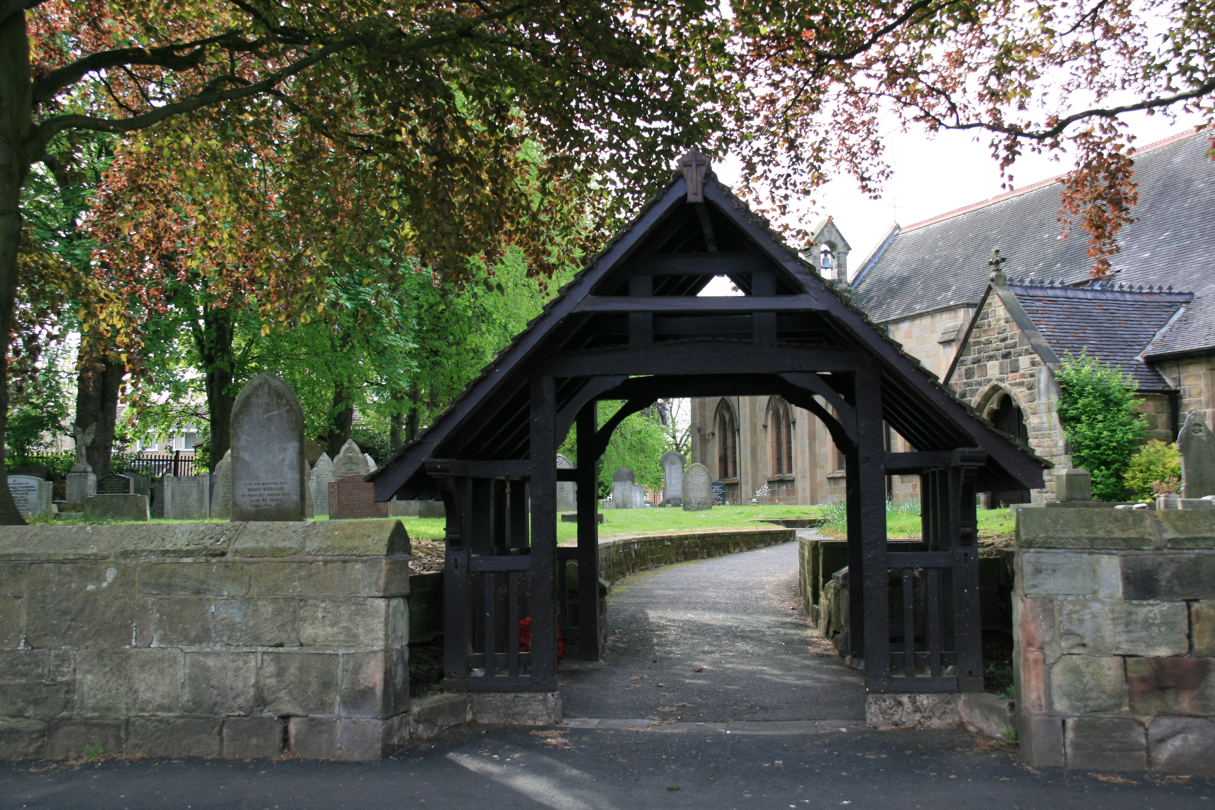 Lych gate of St Mary the Virgin parish churchyard, Boulton, Derby, seen from the east